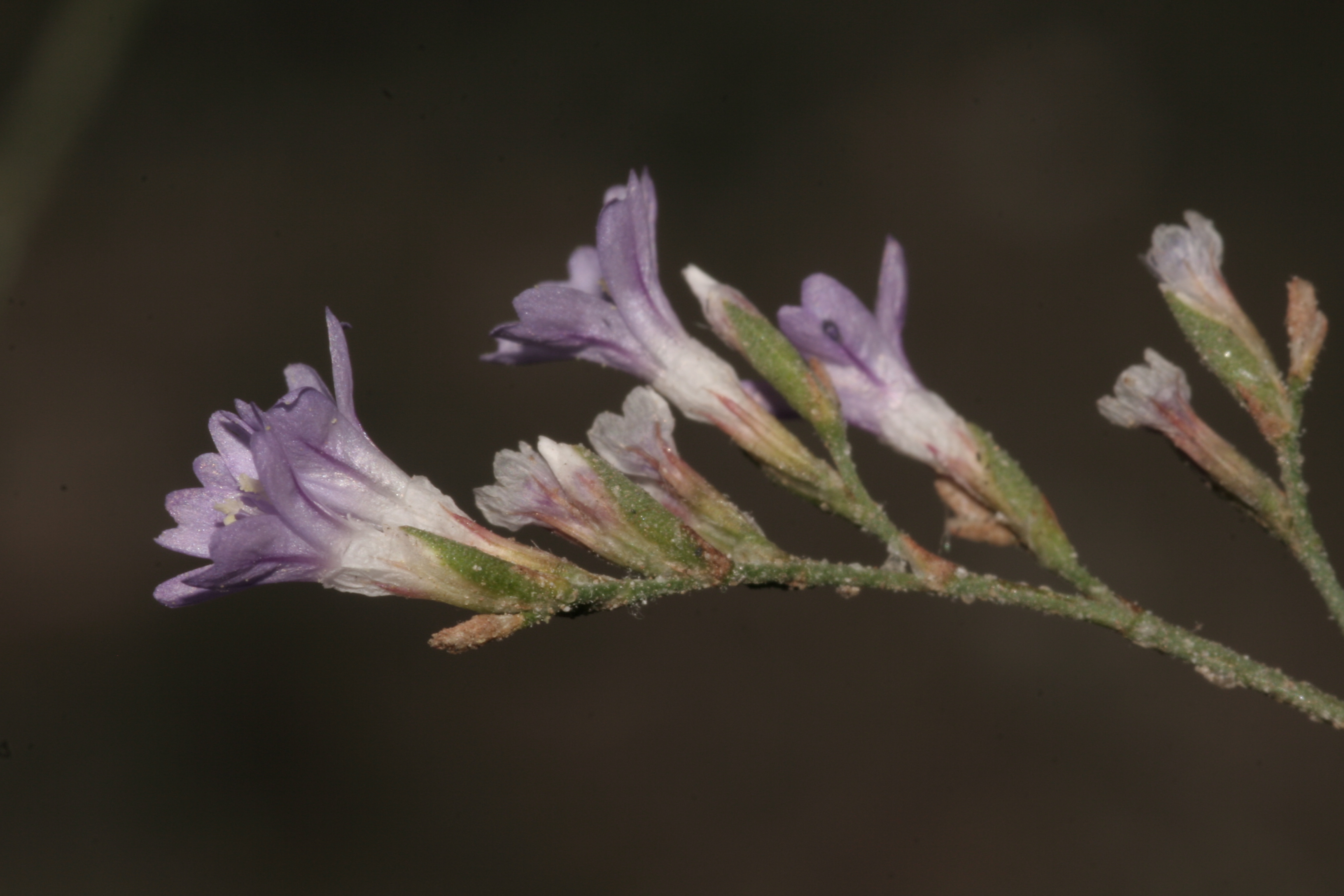 Flower of Limonium malacitanum, an threatened botanic endemism of Costa del Sol